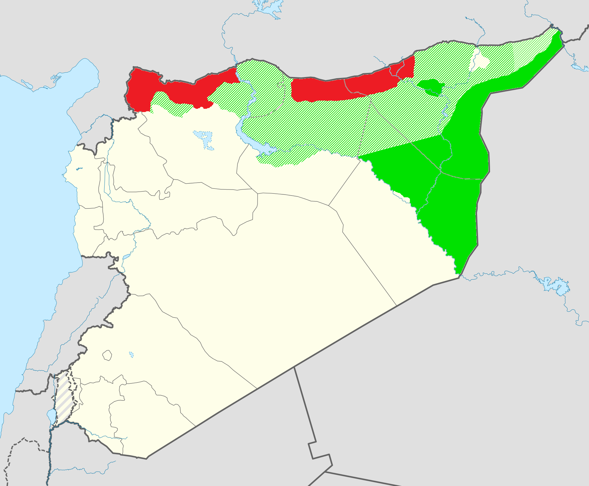 Claimed territory of Rojava (in orange) not currently under control and the de facto territory controlled by the Syrian Democratic Forces (in green).